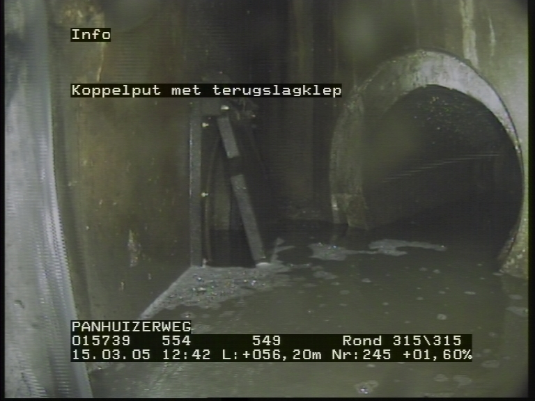 Check valve used in a sewer to allow flow of rainwater into wastewatersystem, opposite flow is prevented. Picture taken by inspectionrobot.